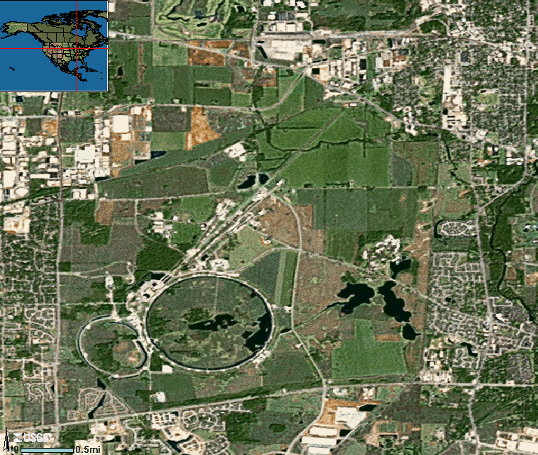 Satellite image of Fermi National Accelerator Laboratory, Batavia near Chicago, Illinois